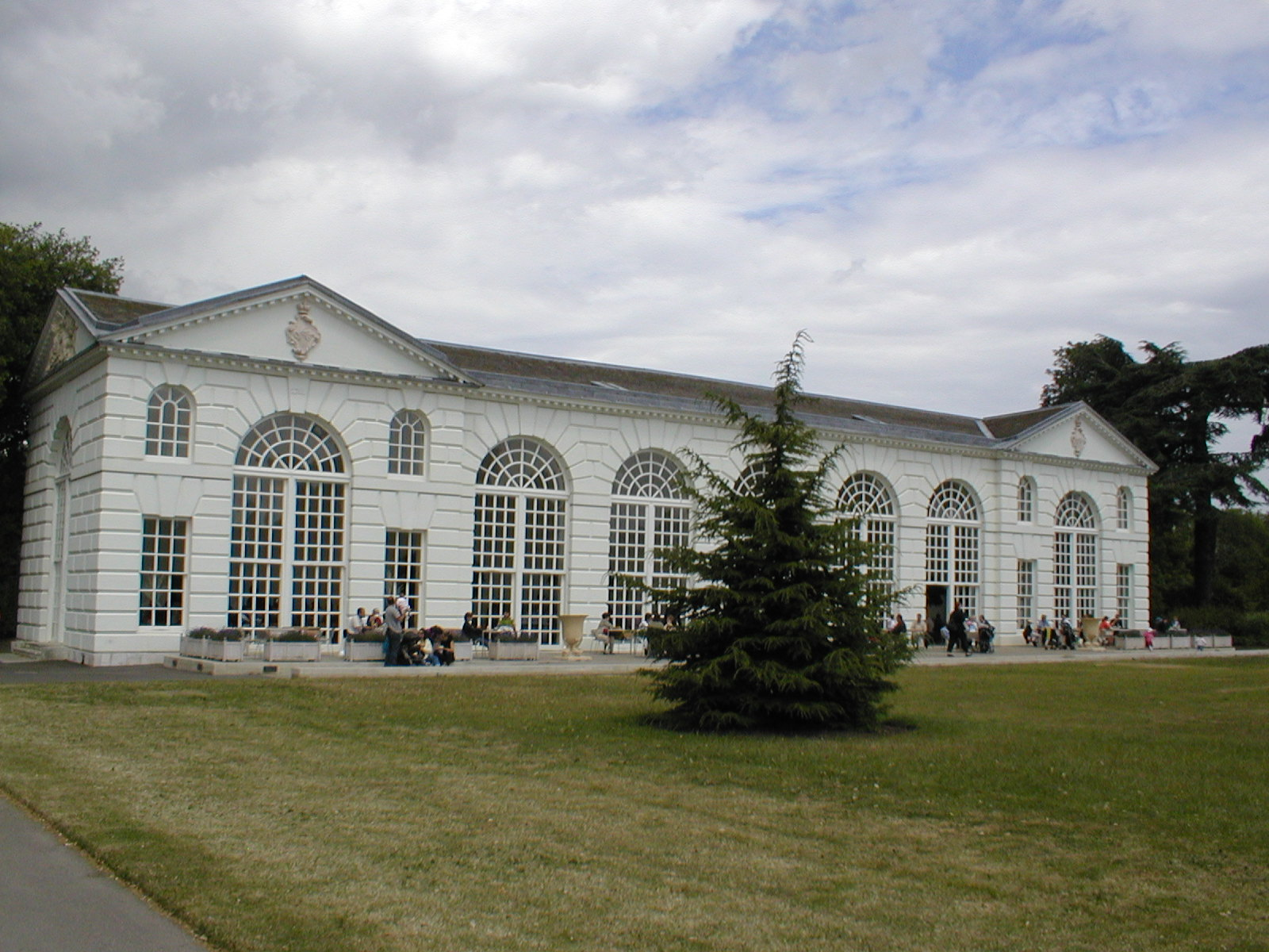 The Orangery